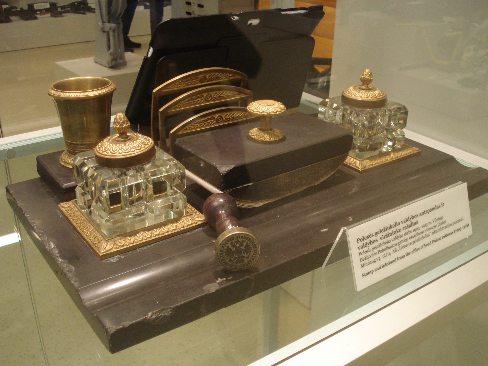 Lithuanian Railway Museum. Vilnius